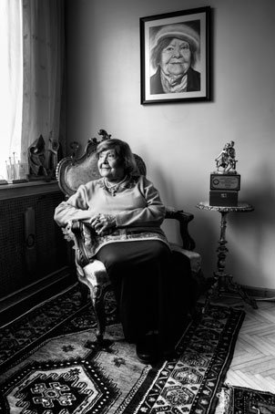 Muazzez İlmiye Çığ fotoğraf: Erhan Saçlı